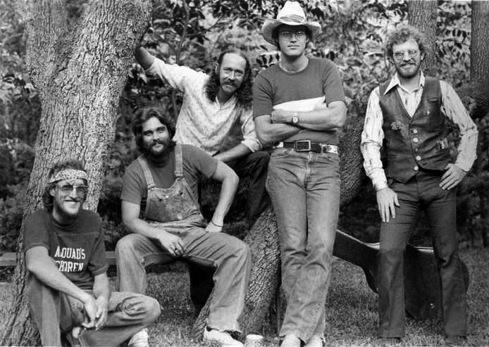 Publicity photo of The Lost Gonzo Band.